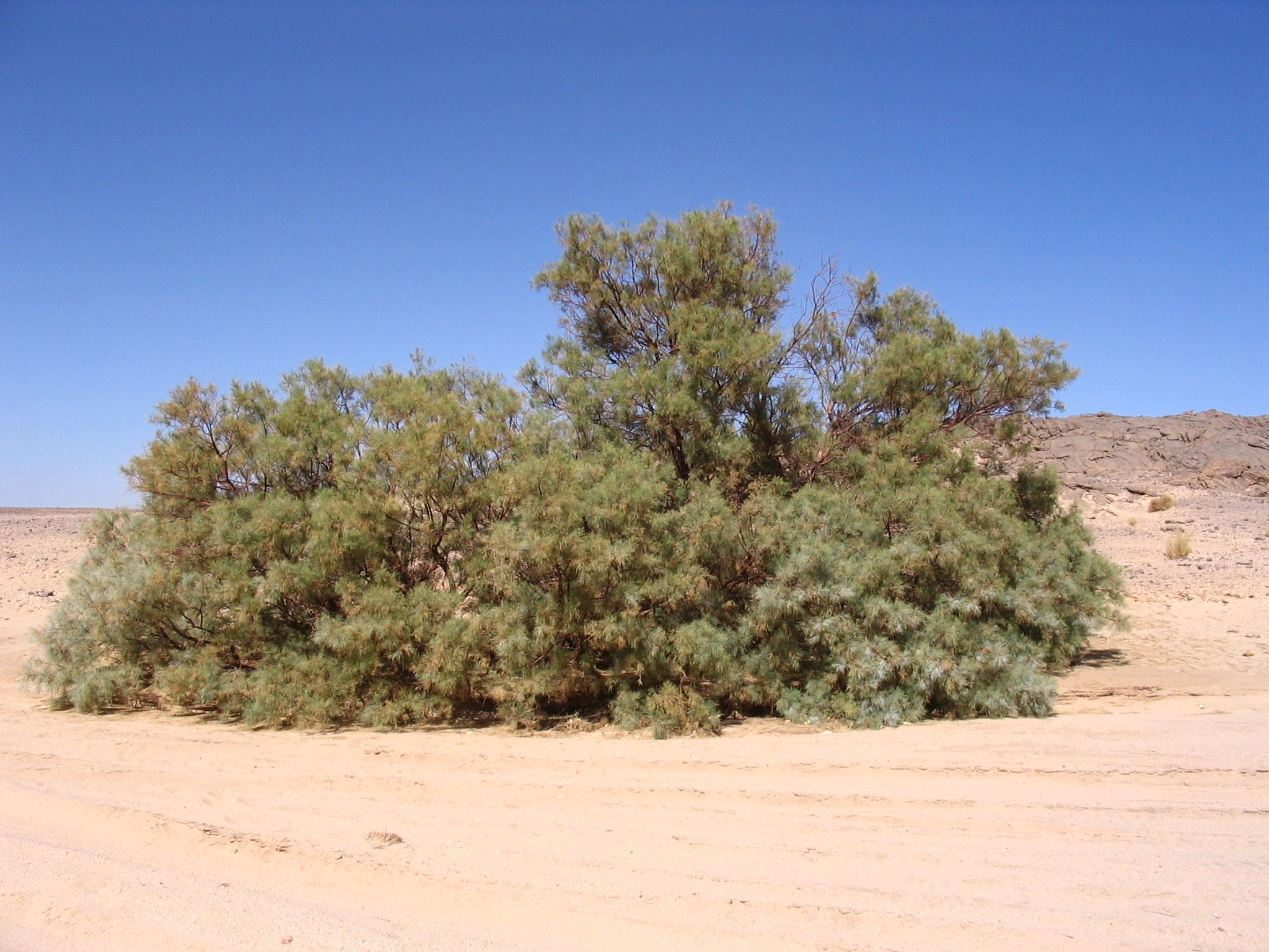 Tamarisk tree (Tamarix aphylla) — in southern Algeria.